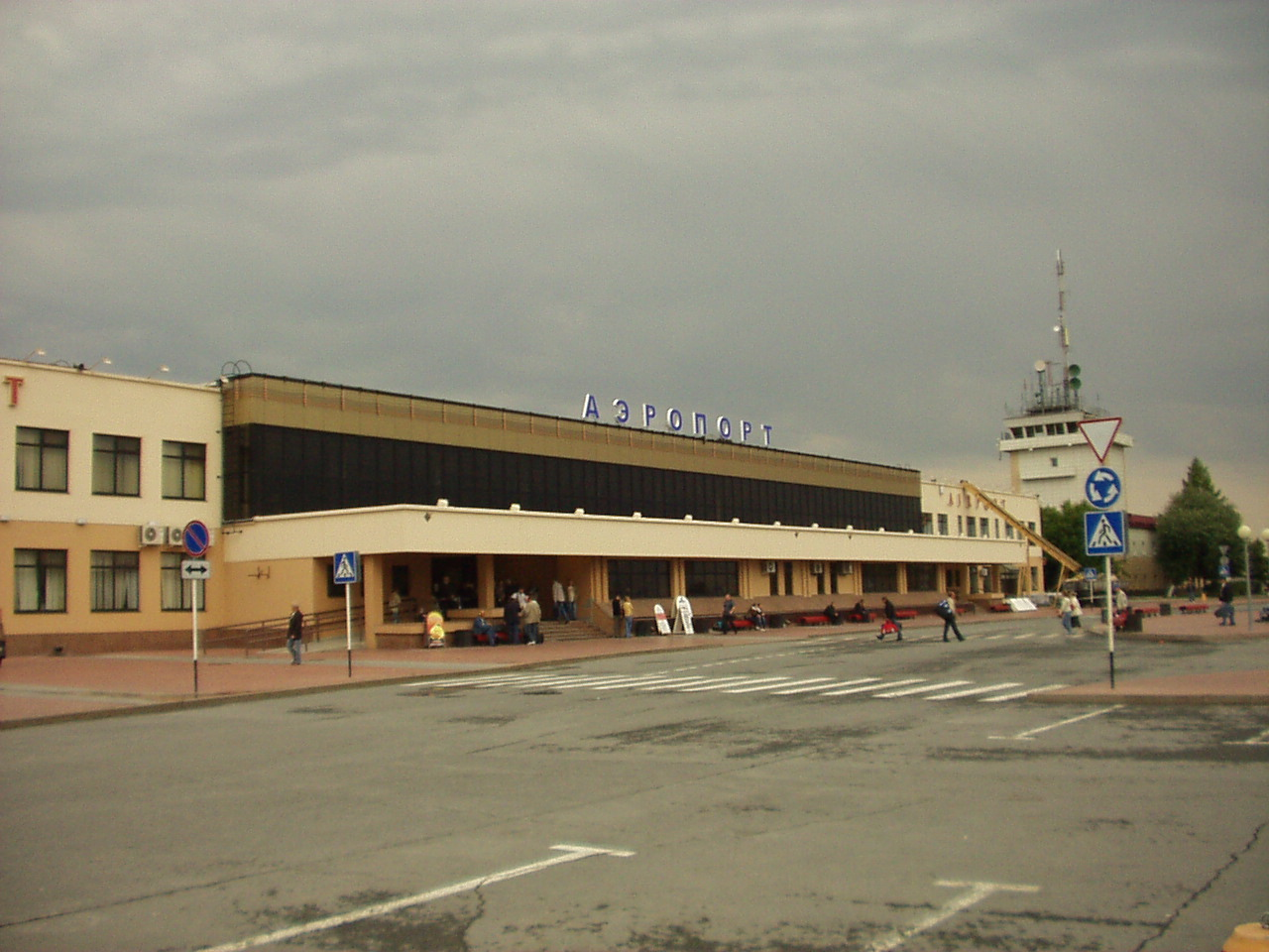 Roschino International Airport of Tyumen city (Russia).